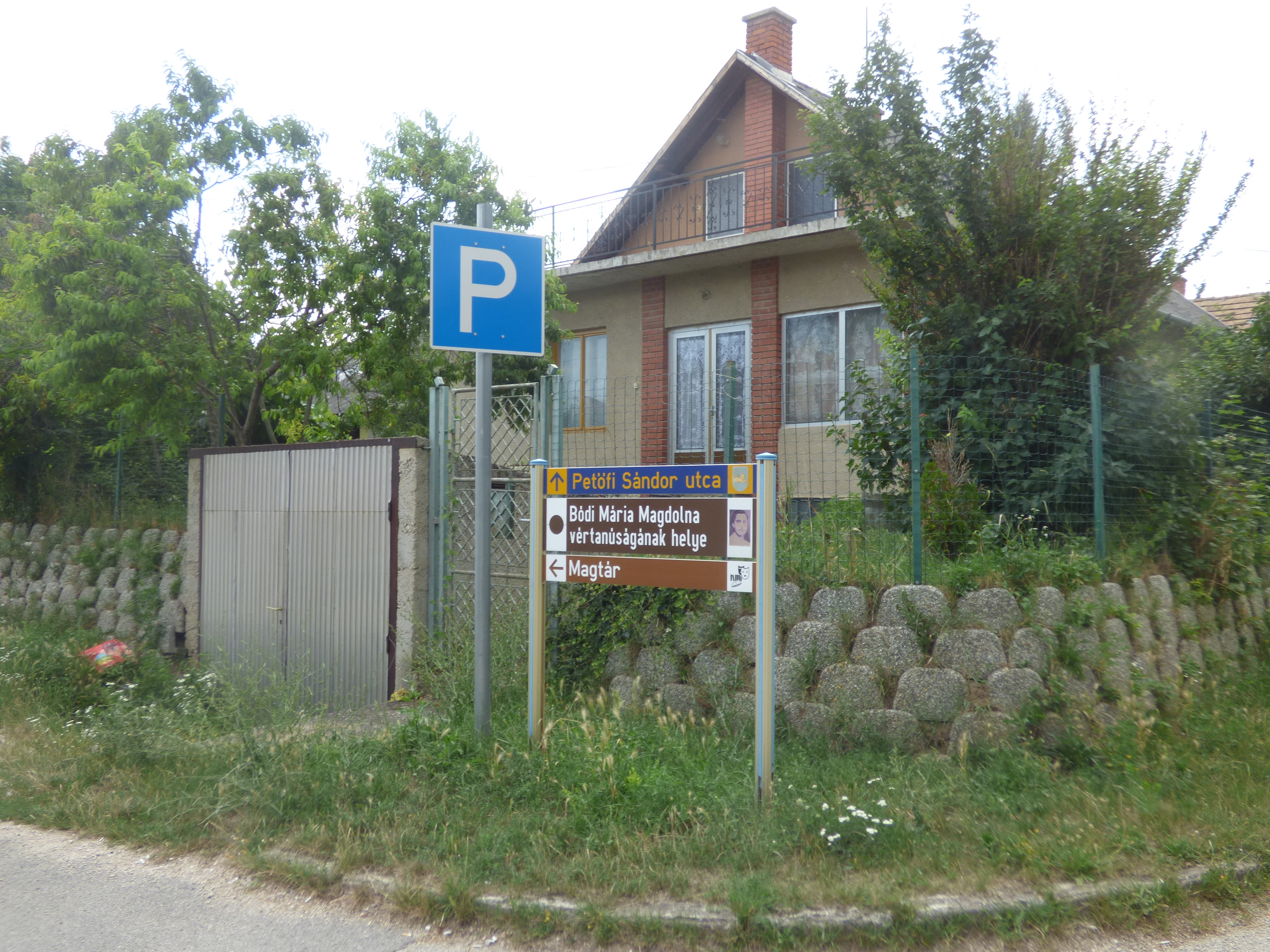 Tájékoztató tábla irányít Bódi Mária vértanúságának egykori helyszínére, a hajdani litéri kastély (ma iskola) udvarához